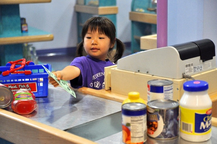 Girl working in the Grocery Store as a cashier